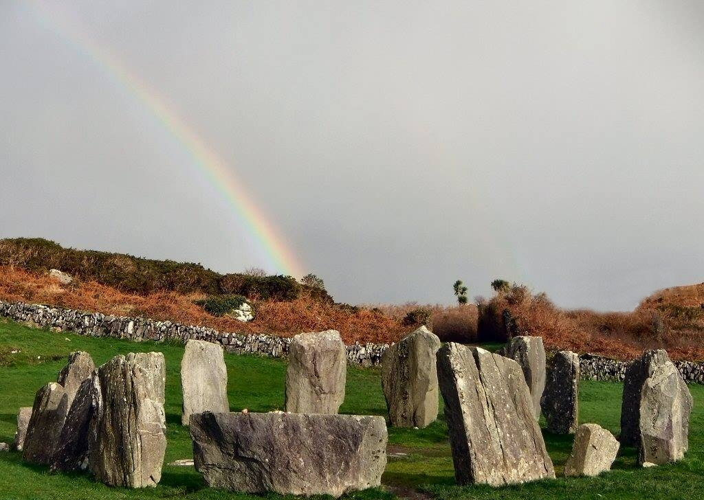 County Cork, Drombeg stone circle. Wikidata has entry Q1260144 with data related to this item.